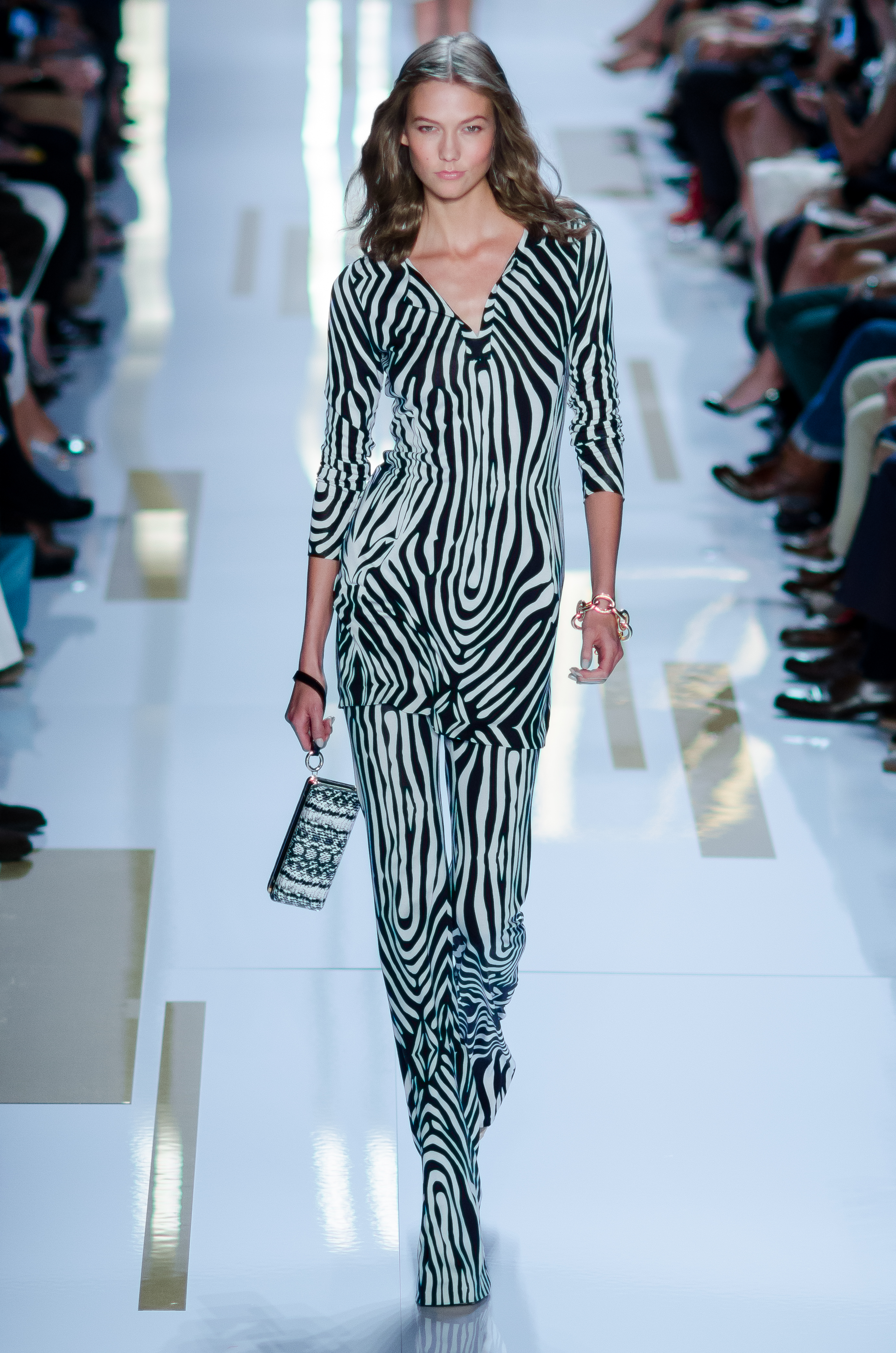 Karlie Kloss walks the runway at the Diane von Fürstenberg Spring/Summer 2014 show at New York Fashion Week, September 2013.